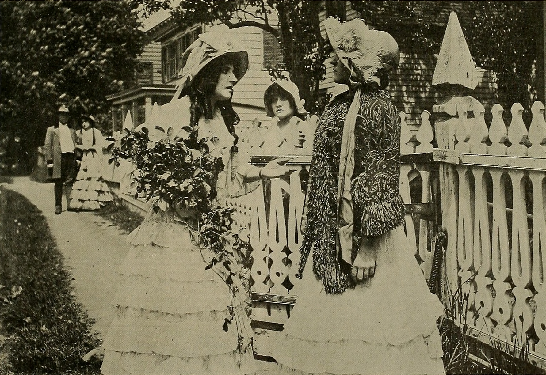 Film still of The Seed of the Fathers by S. E. V. Taylor, starring Marion Leonard, produced by Monopol Film Company in 1913, image taken from The Moving Pictures World, July 12th, 1913